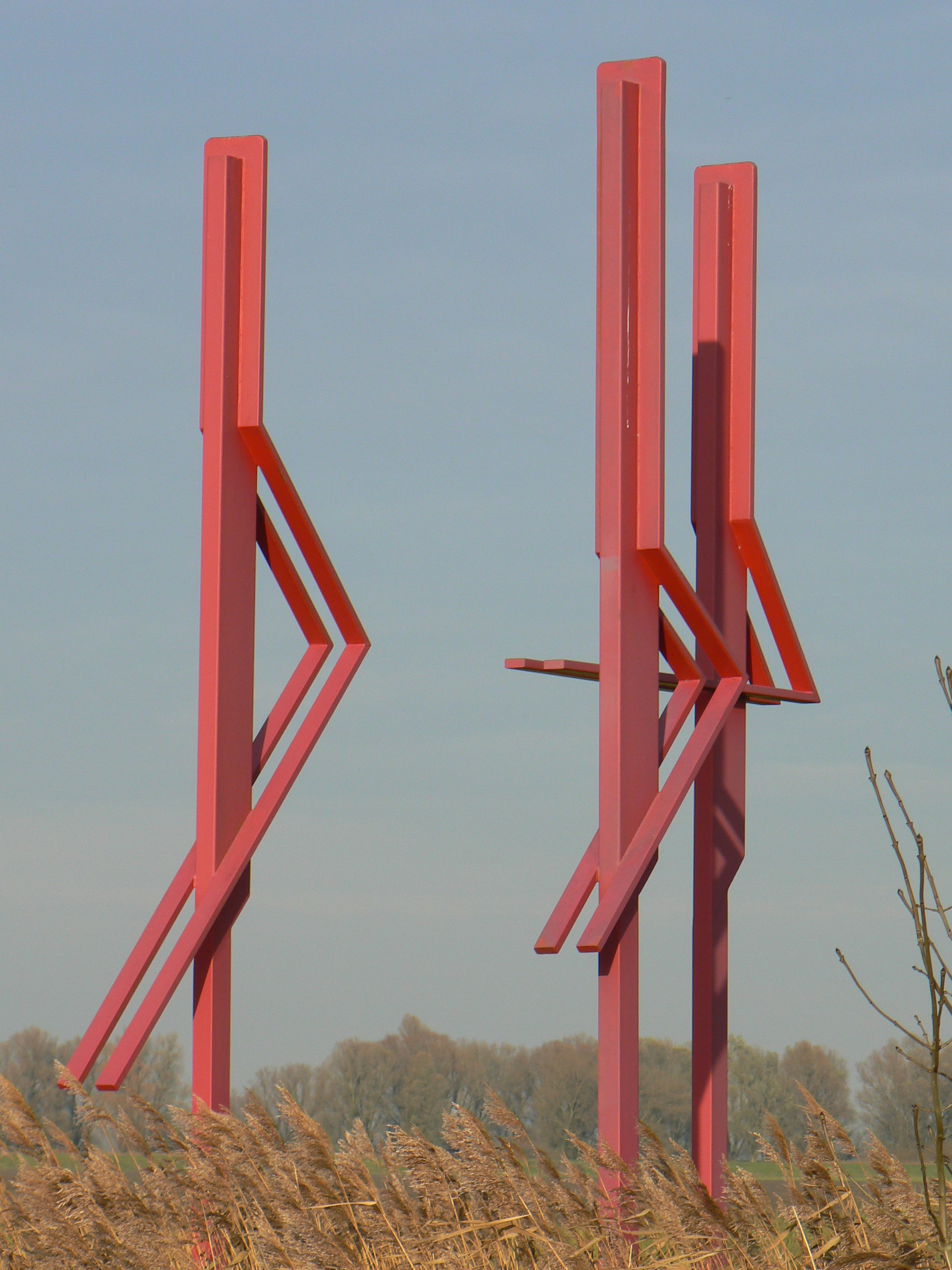 sculpture Wachters by Chris Verbeek in Reiderland/The Netherlands